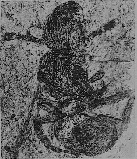 Original description "Plate 5. Fig. 3. Lithomyrmex rugosus, sp. nov, Florissant, obverse of holotype (♀). X5.5." 'Eulithomyrmex rugosus holotype female Specimen 2926, Museum of Comparative Zoology, Harvard University